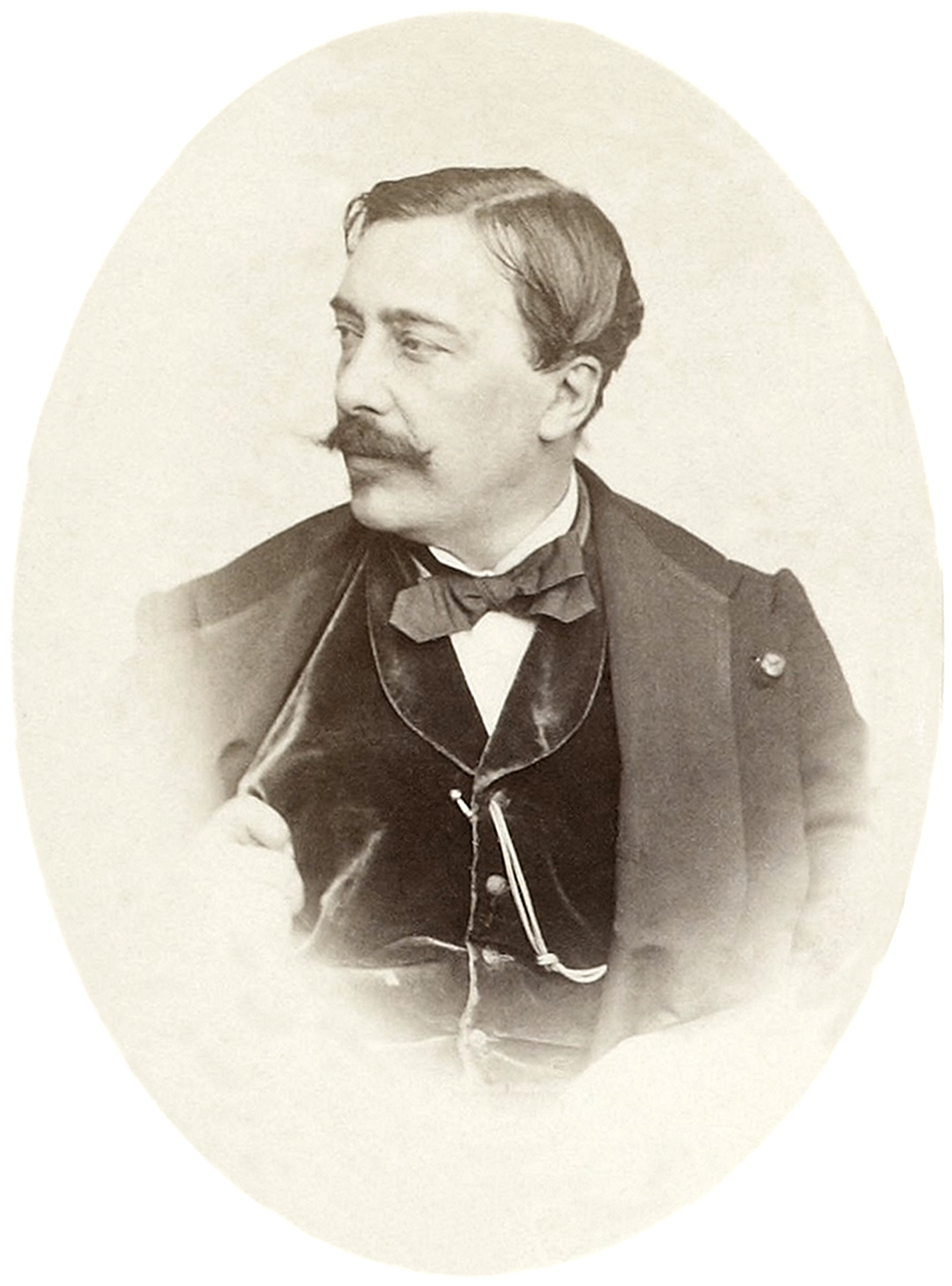 Alfred Stevens (1823 - 1906), belgian painter. Photo out of the personal album belonging to Édouard Manet.